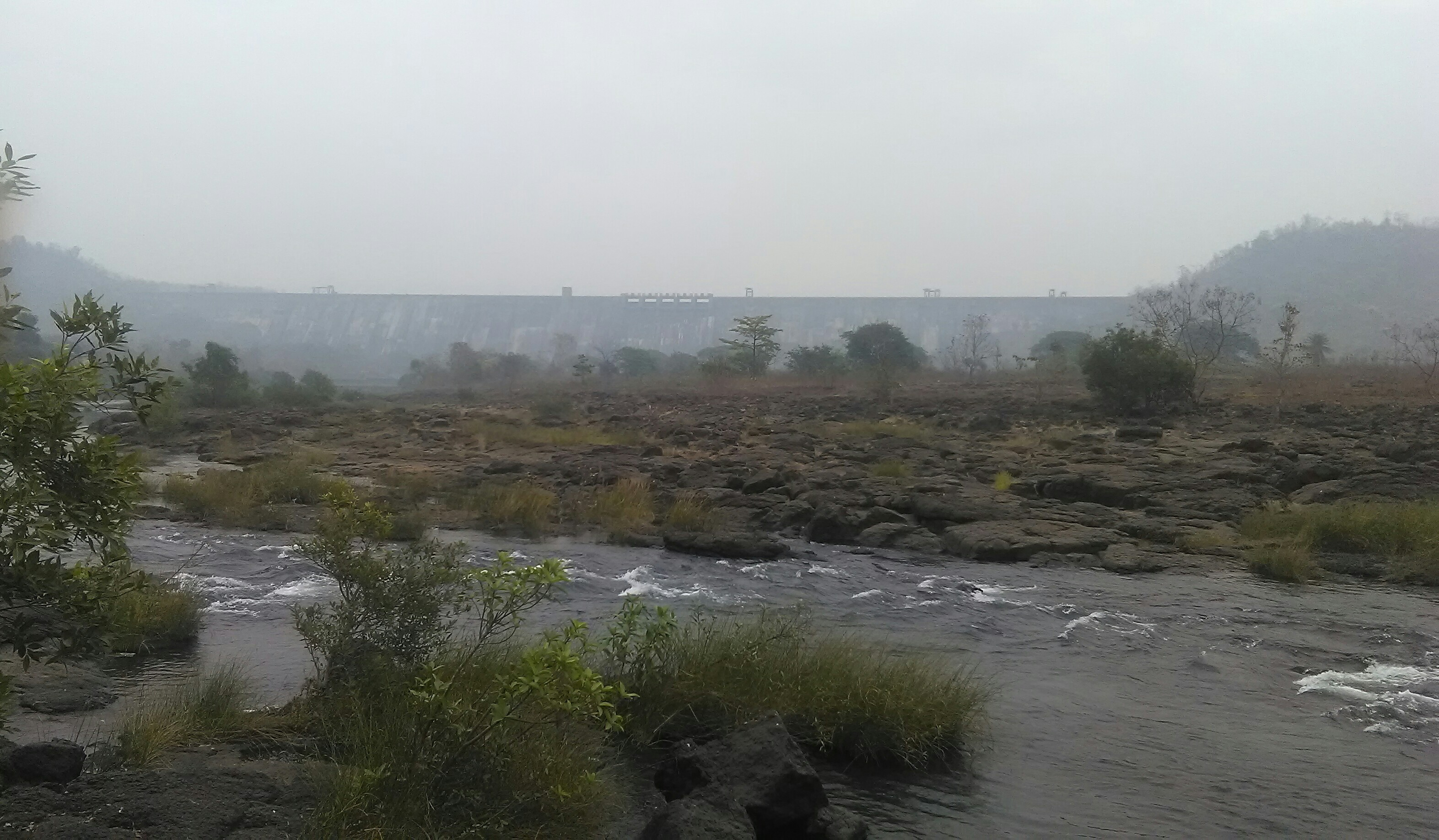 Bhatsa Dam